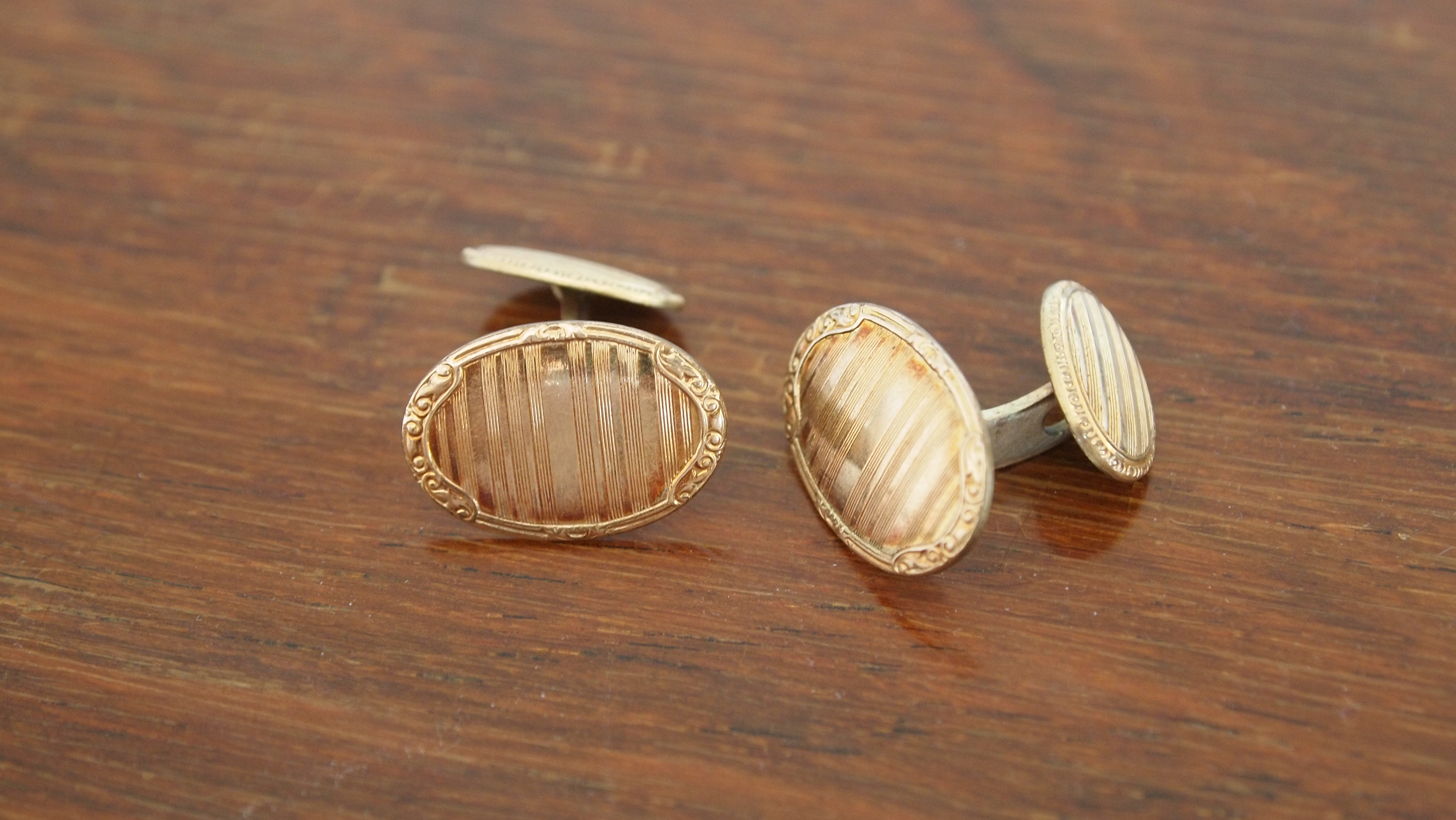 Cufflinks in gold doublet